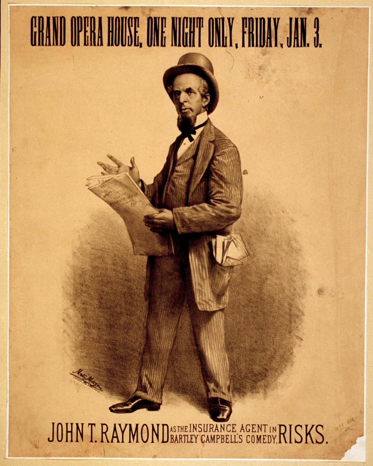 "John T. Raymond as the insurance agent in Bartley Campbell's comedy, Risks"